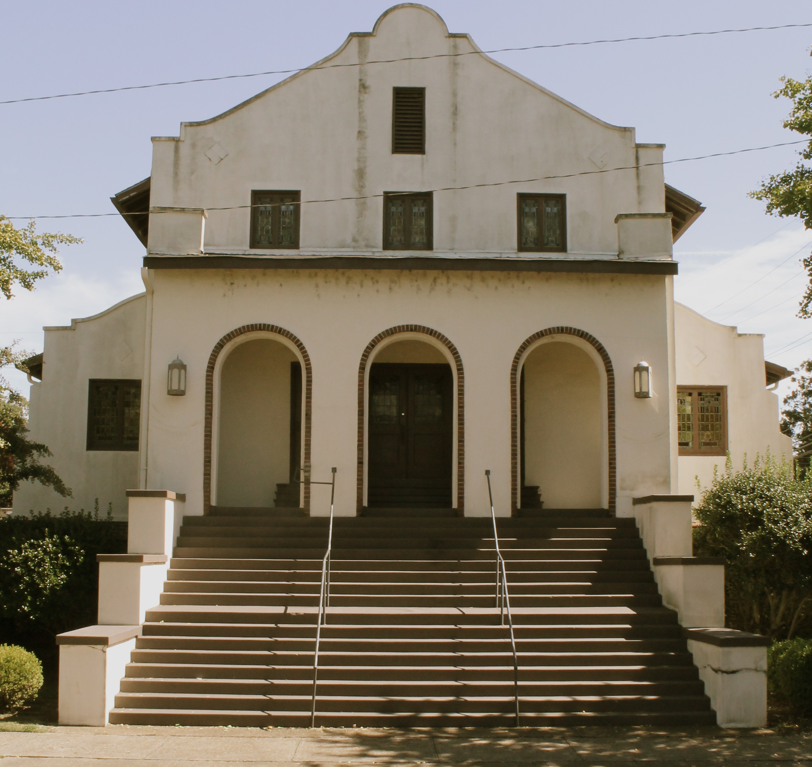 Leland Historic District, Portions of N. and S. Broad, N. and S. Main, Deer Creek Dr., and 3rd St. Leland